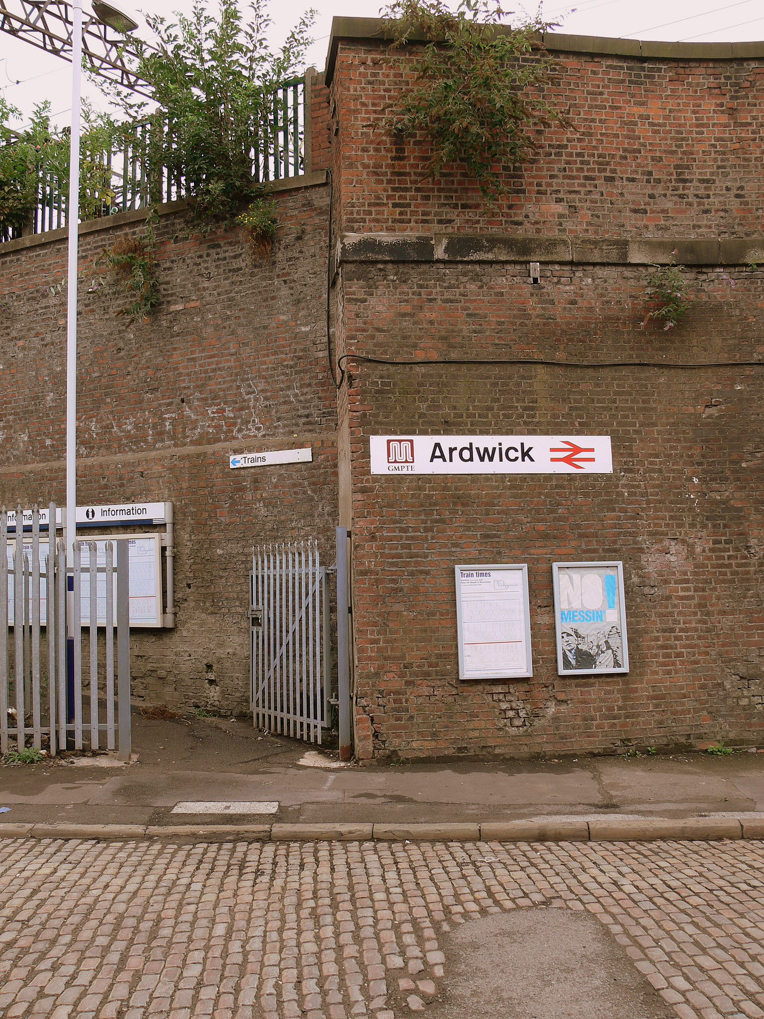 Ardwick railway station